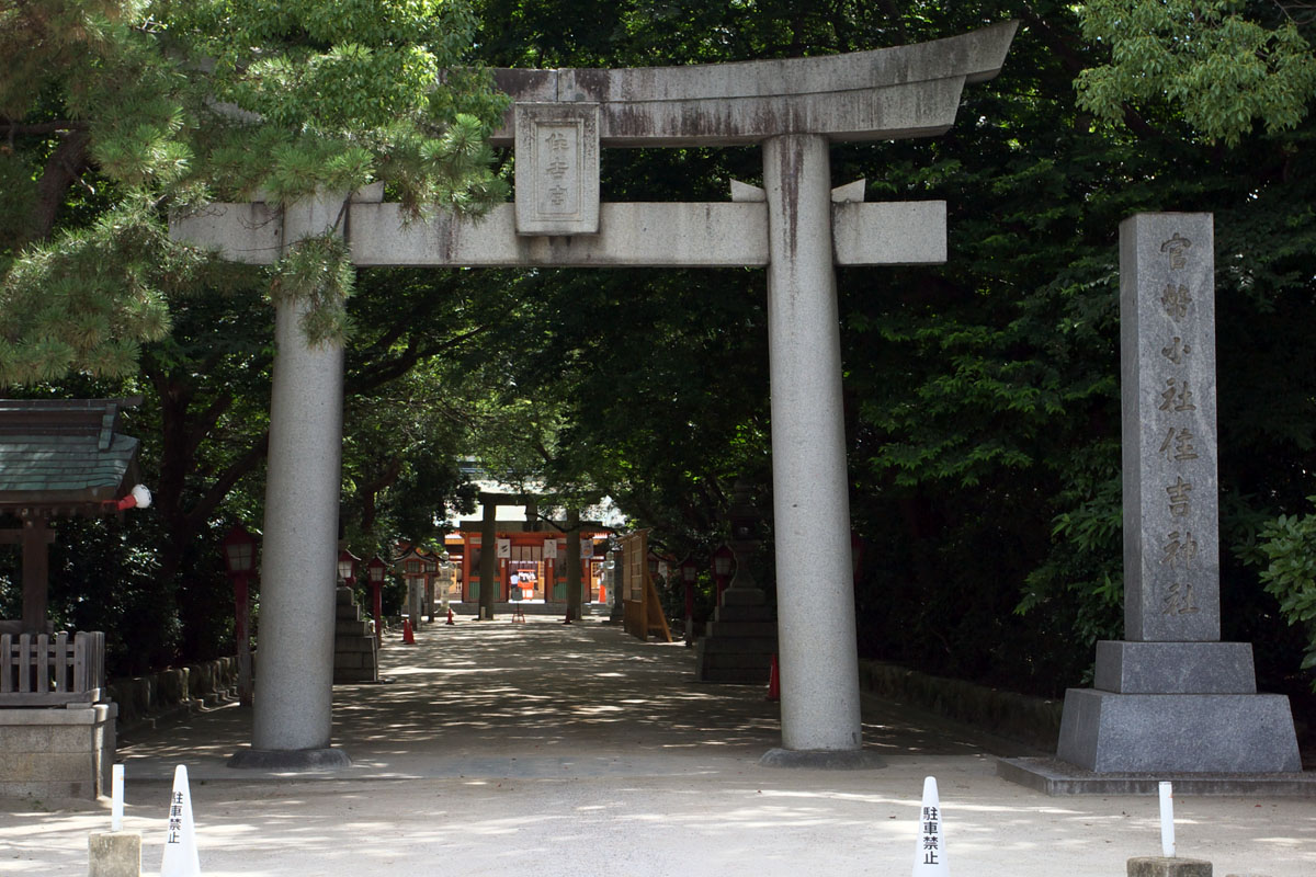 Sumiyoshi shrine, in Hakata-ku, Fukuoka city, Japan.